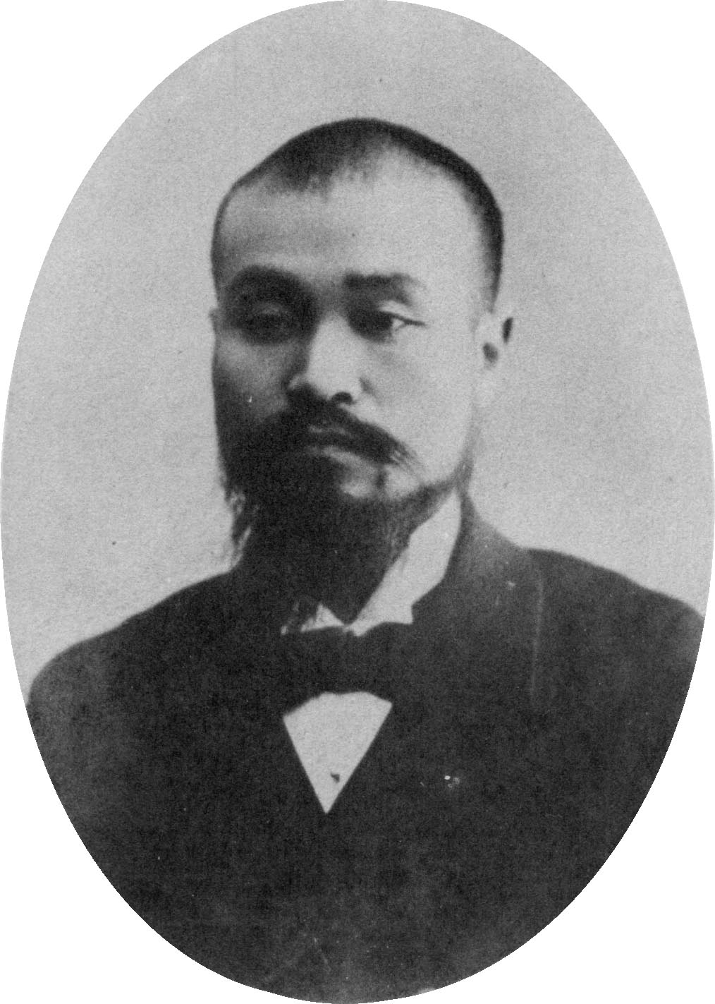 Mr. Aikichi Miyoshi.